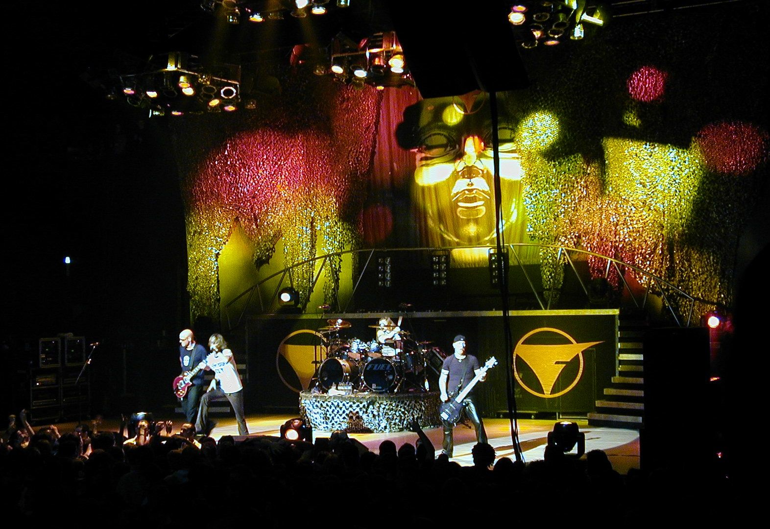 Fuel NYC Hammerstein Ballroom